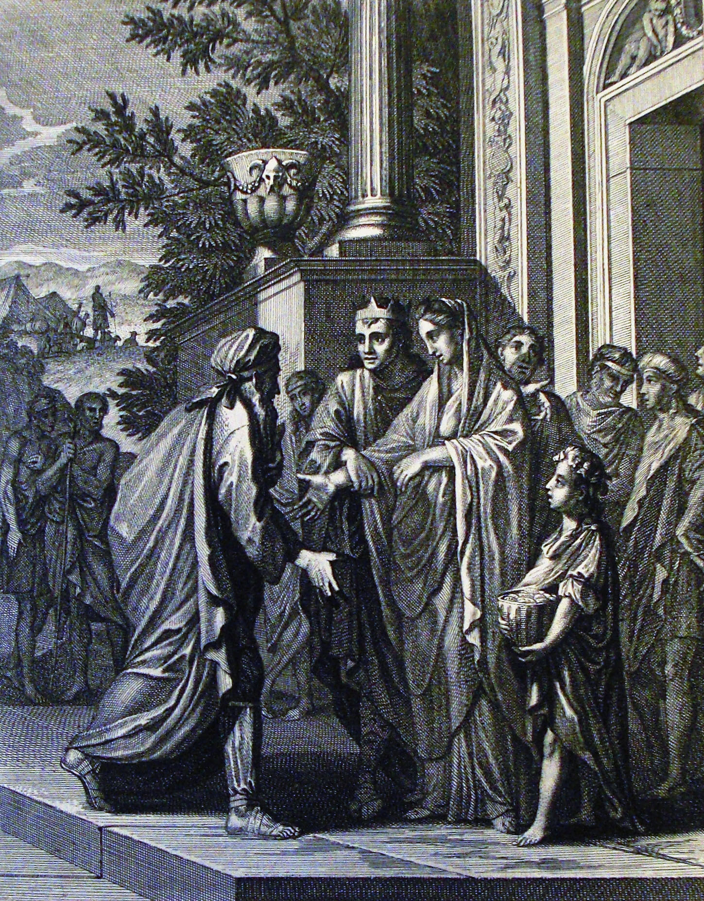 In the collection of Revd. Philip De Vere at St. George’s Court, Kidderminster, England.